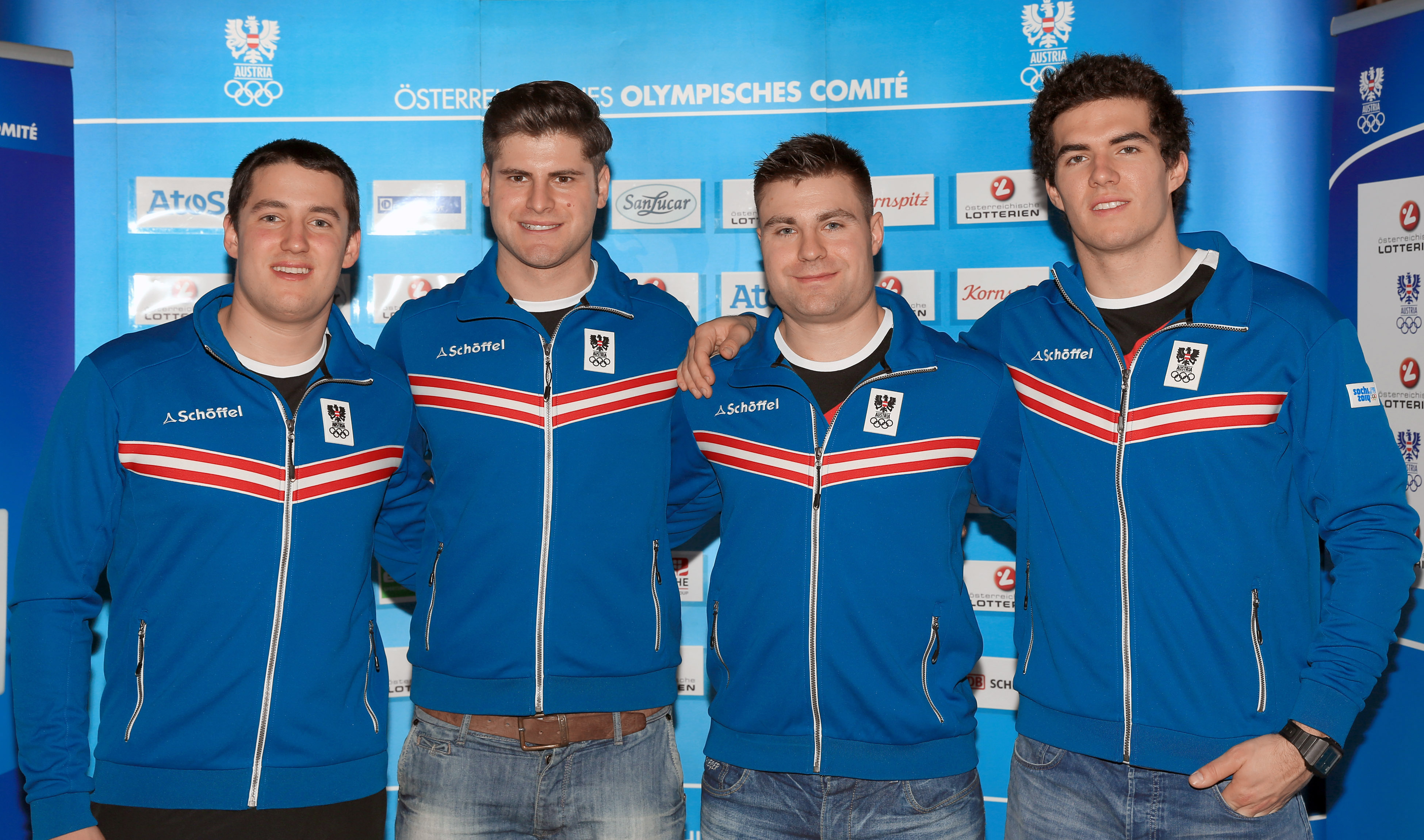 Benjamin Maier, Angel Somov, Stefan Withalm and Sebastian Heufler (bobsleigh) at the outfitting of the Austrian team for the 2014 Winter Olympics (Hotel Marriott in Vienna, Austria.